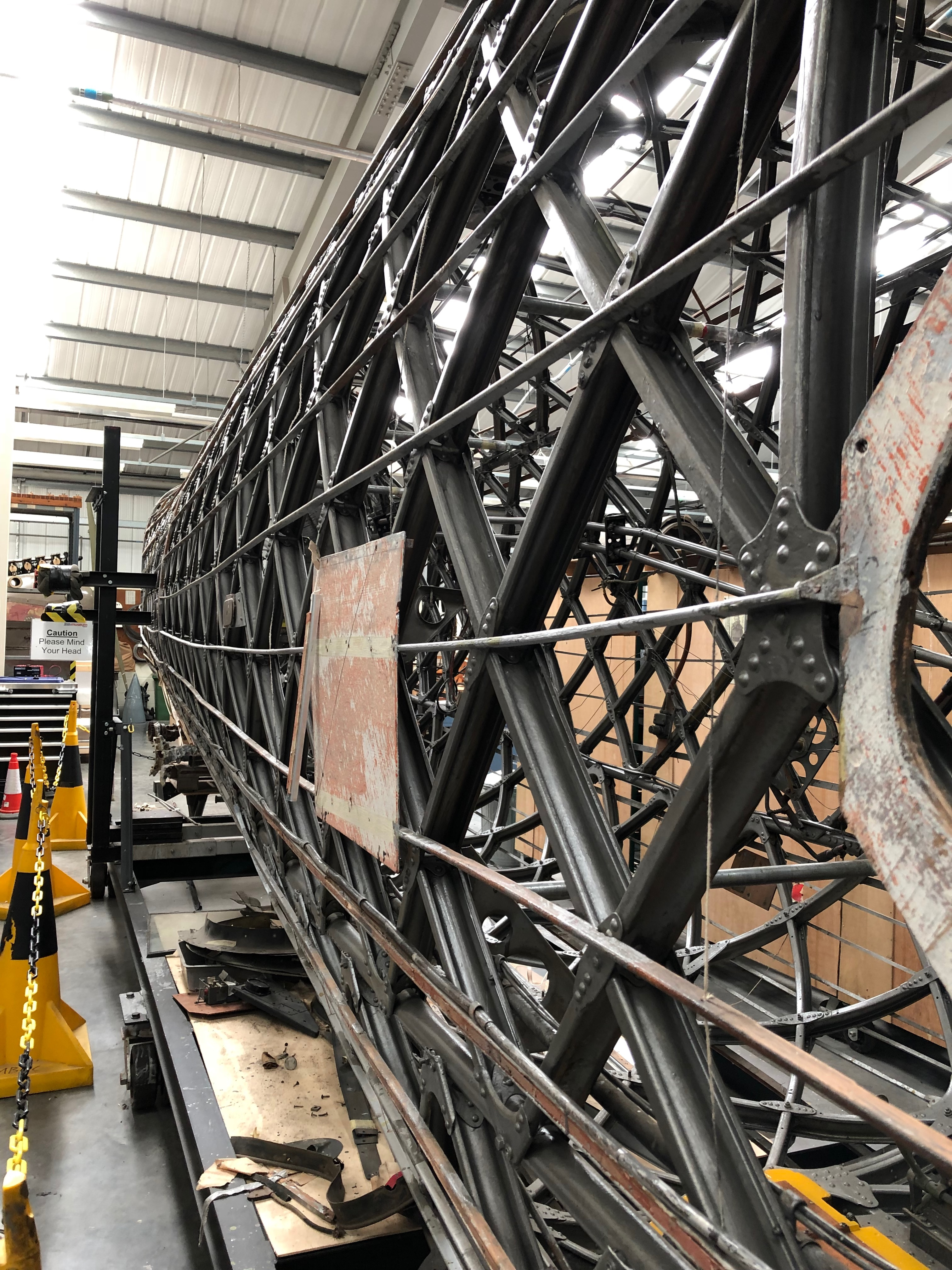 Close up of the geodesic airframe of the Vickers Wellington bomber, taken at RAF Cosford, Donington, UK during the restoration of Wellington serial number MF628